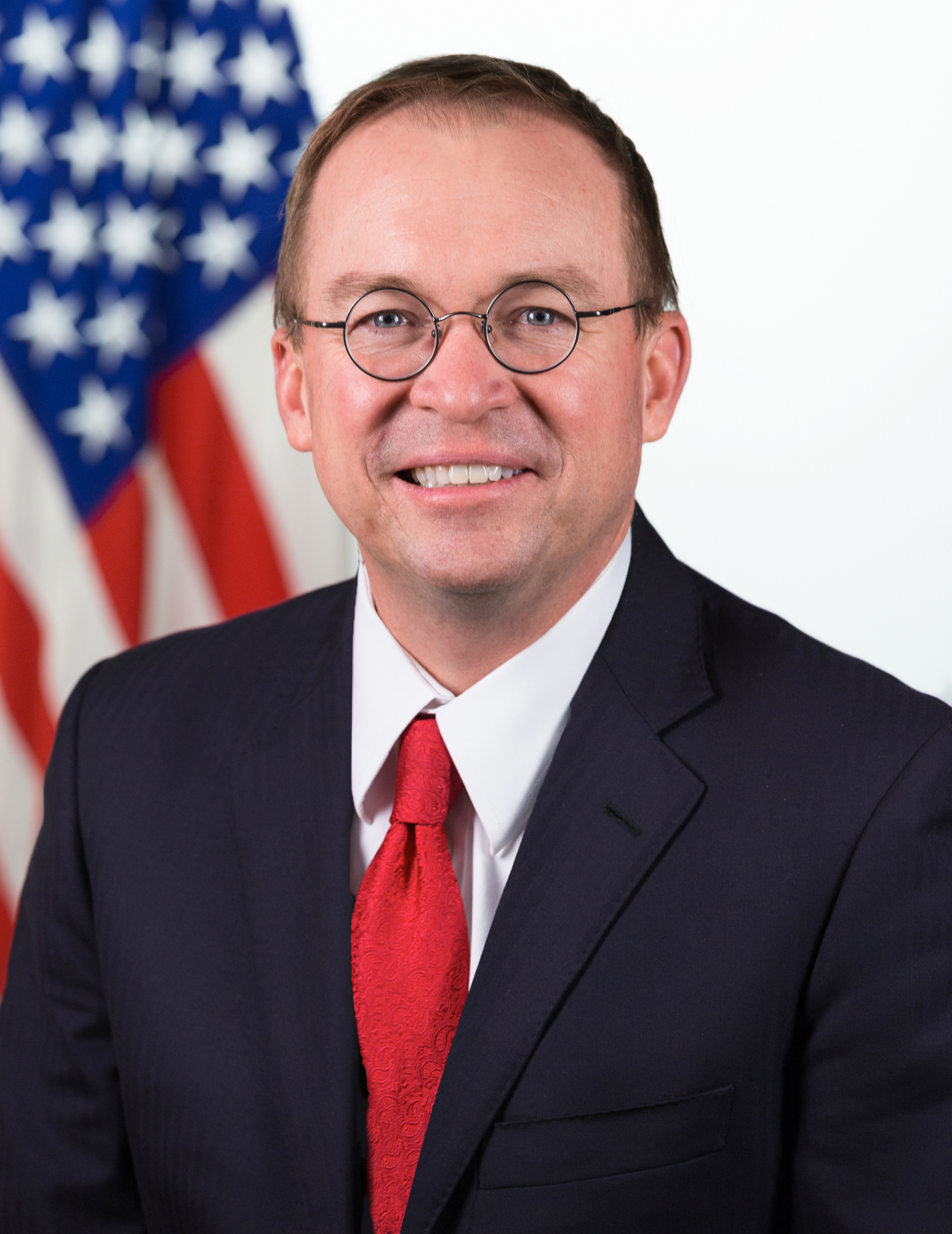 Mick Mulvaney official portrait